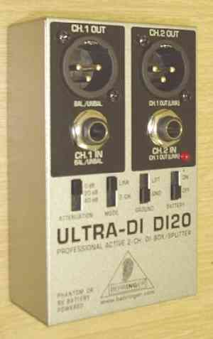 A versatile active stereo DI with passthrough in mono mode only